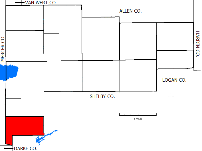 Taken from the Auglaize County map provided by Prinzwilhelm, who claimed that the original map was "self-created based on U.S. Government Census Maps and Date."